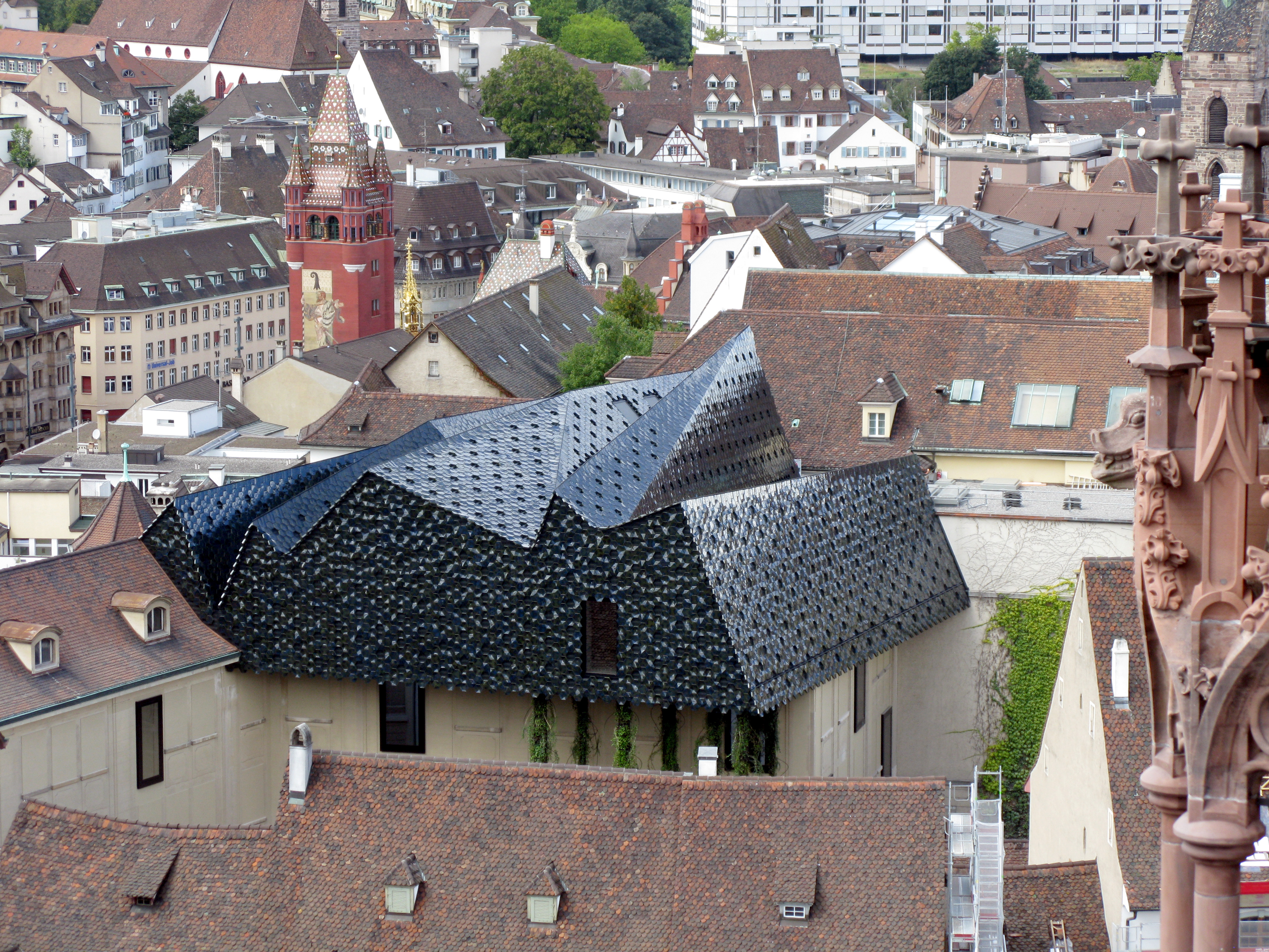 new roof, view from the cathedral, in the background the red tower of the townhall